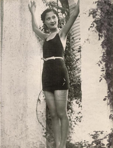 1930s Shanghai actress Xu Lai